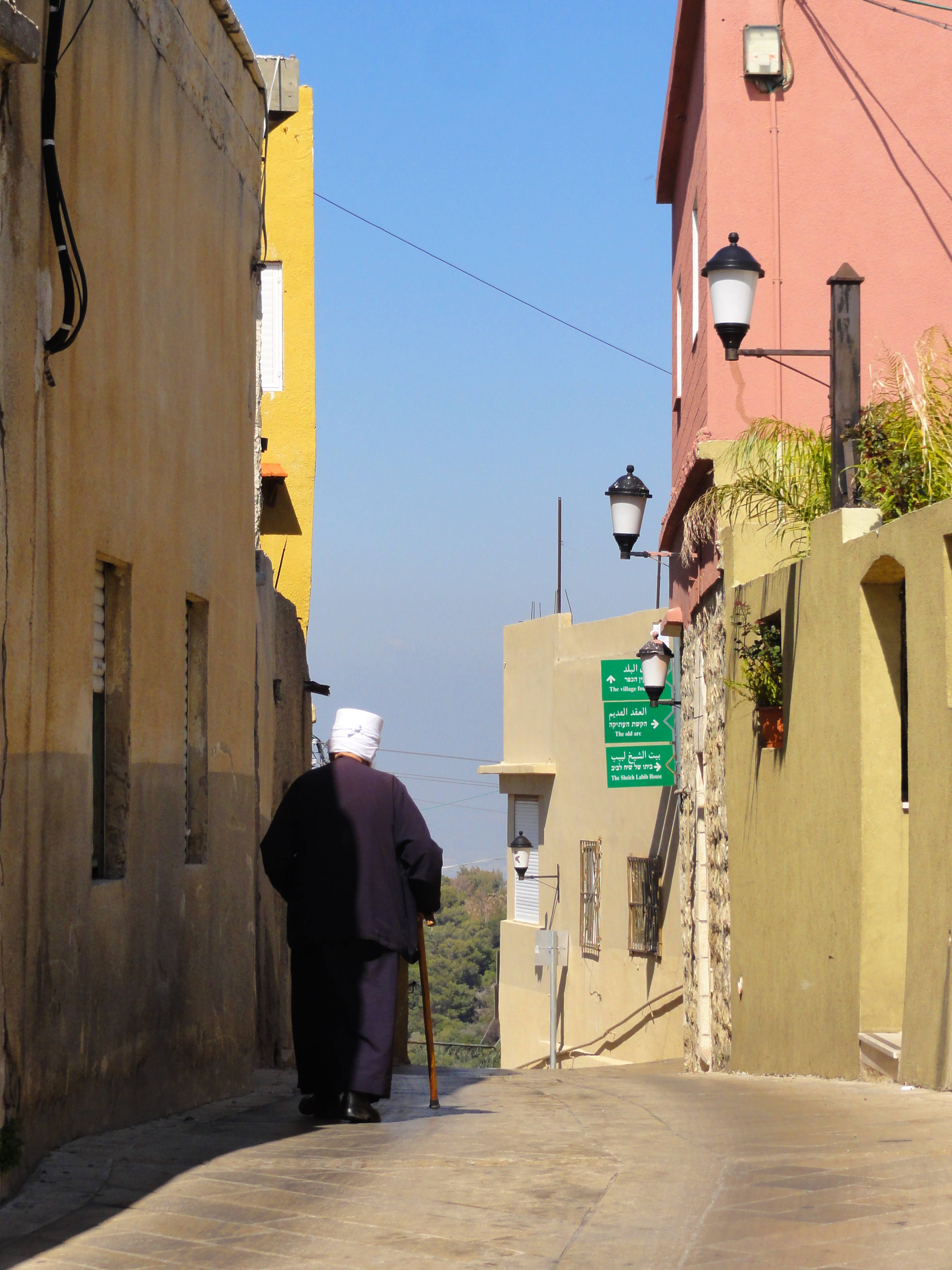 Isafiya Old city